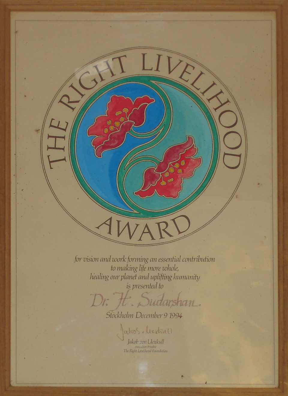 The Right Livelihood Award, sometimes referred to as the Alternate Nobel given annually in the Sweedish Parliament, established by Jacob von Uexkull in 1980. This award photographed in BR Hills was awarded to an organisation, VGKK and its founder, Dr. H. Sudarshan